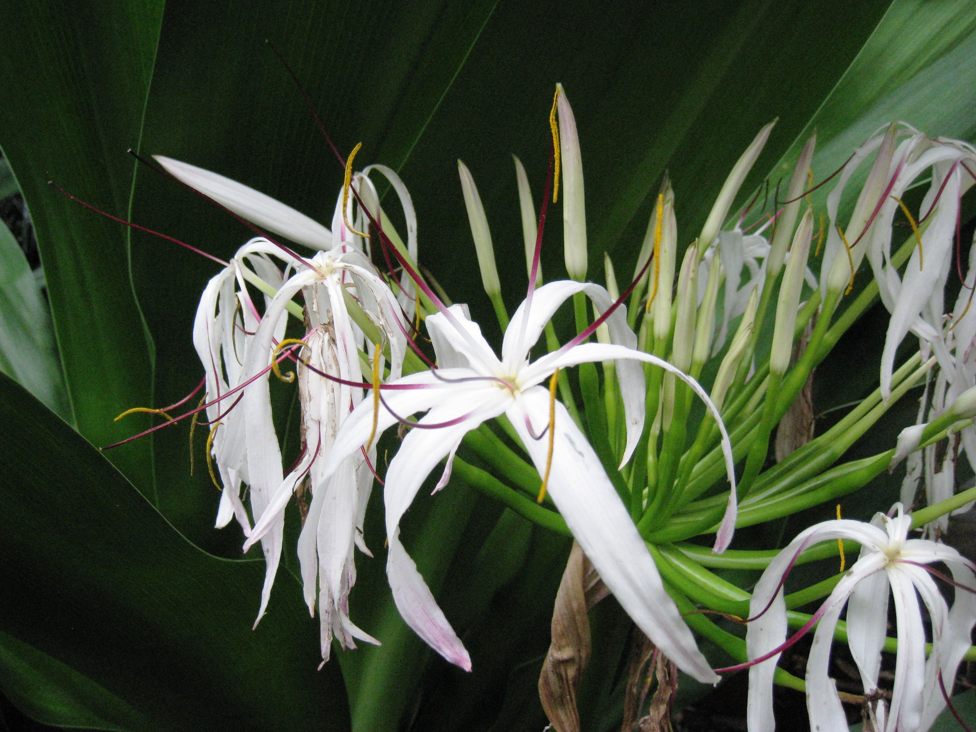 Specimen in cultivation at the Botanical Garden, University of Copenhagen, Denmark.